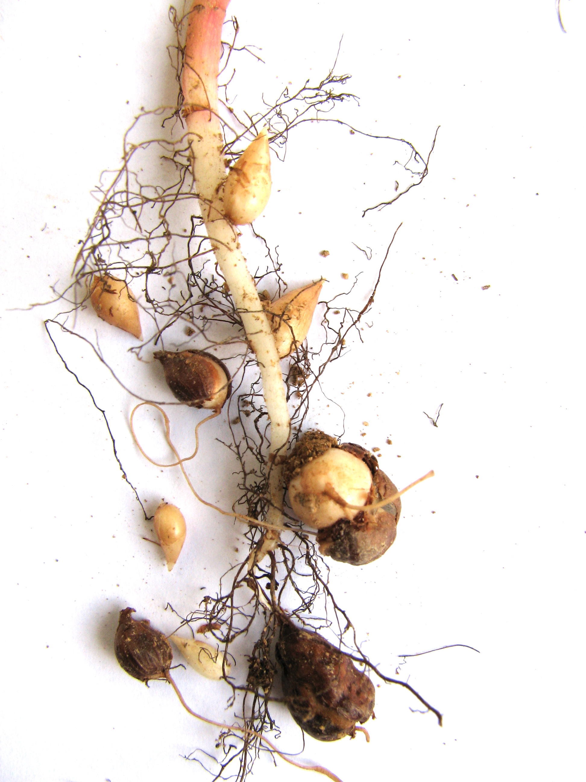 Oxalis pes-caprae root with bulbs in different stages ; Author: Daniel Feliciano ; Location: Torres Novas - Portugal